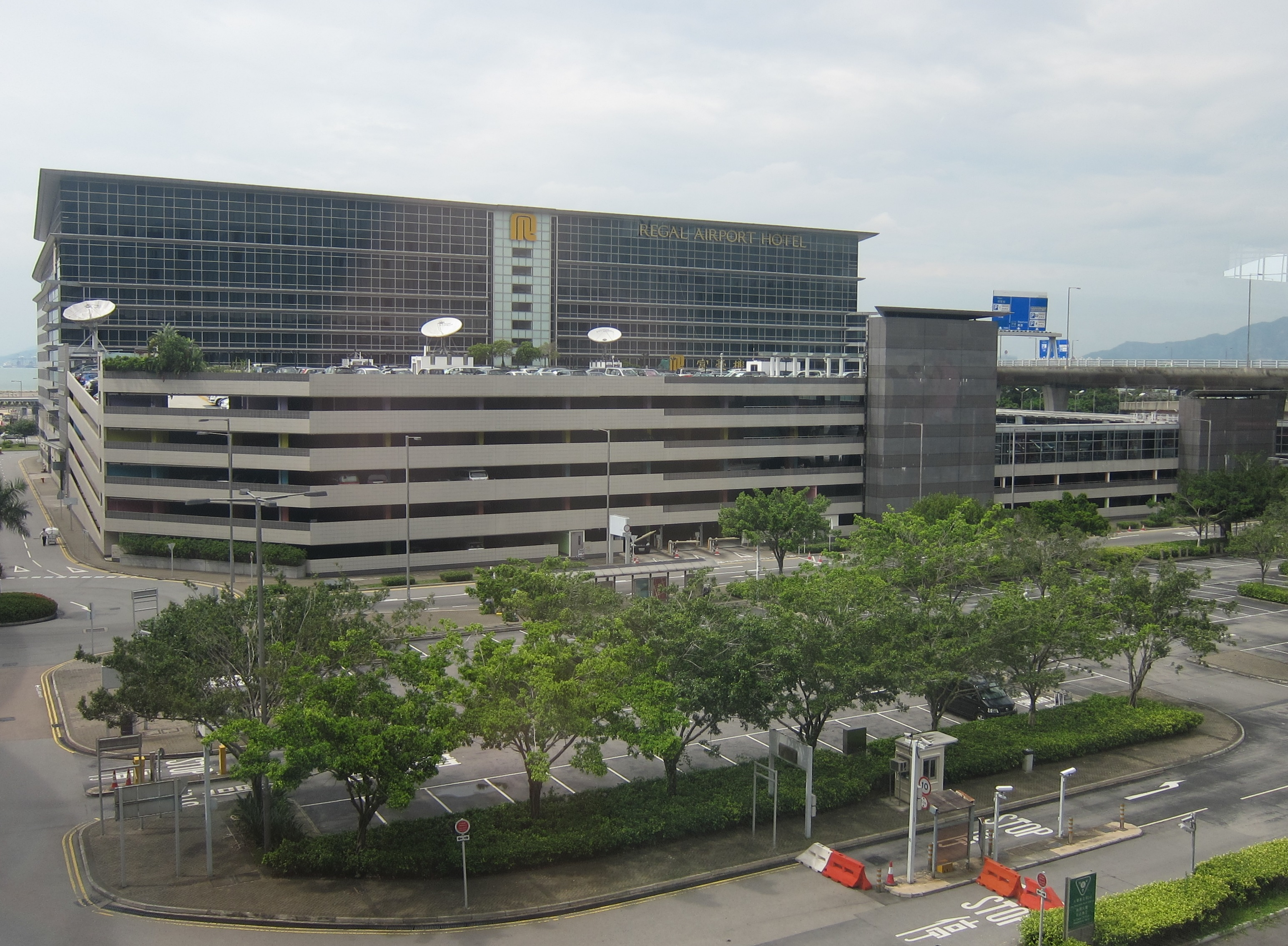 富豪機場酒店 Regal Airport Hotel inHong Kong International Airport